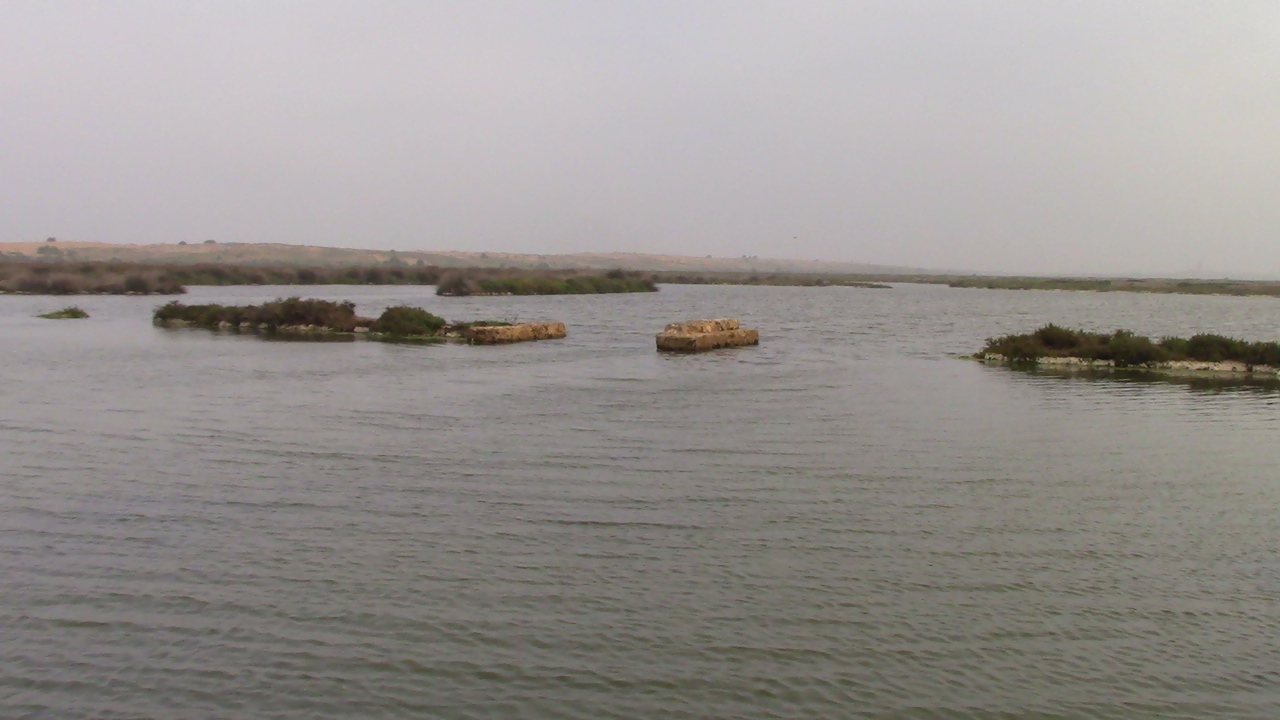 Sidi Moussa Lagoon Nature Preserve - View